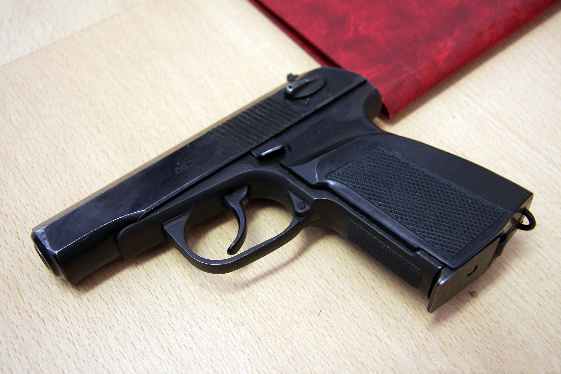 PMM